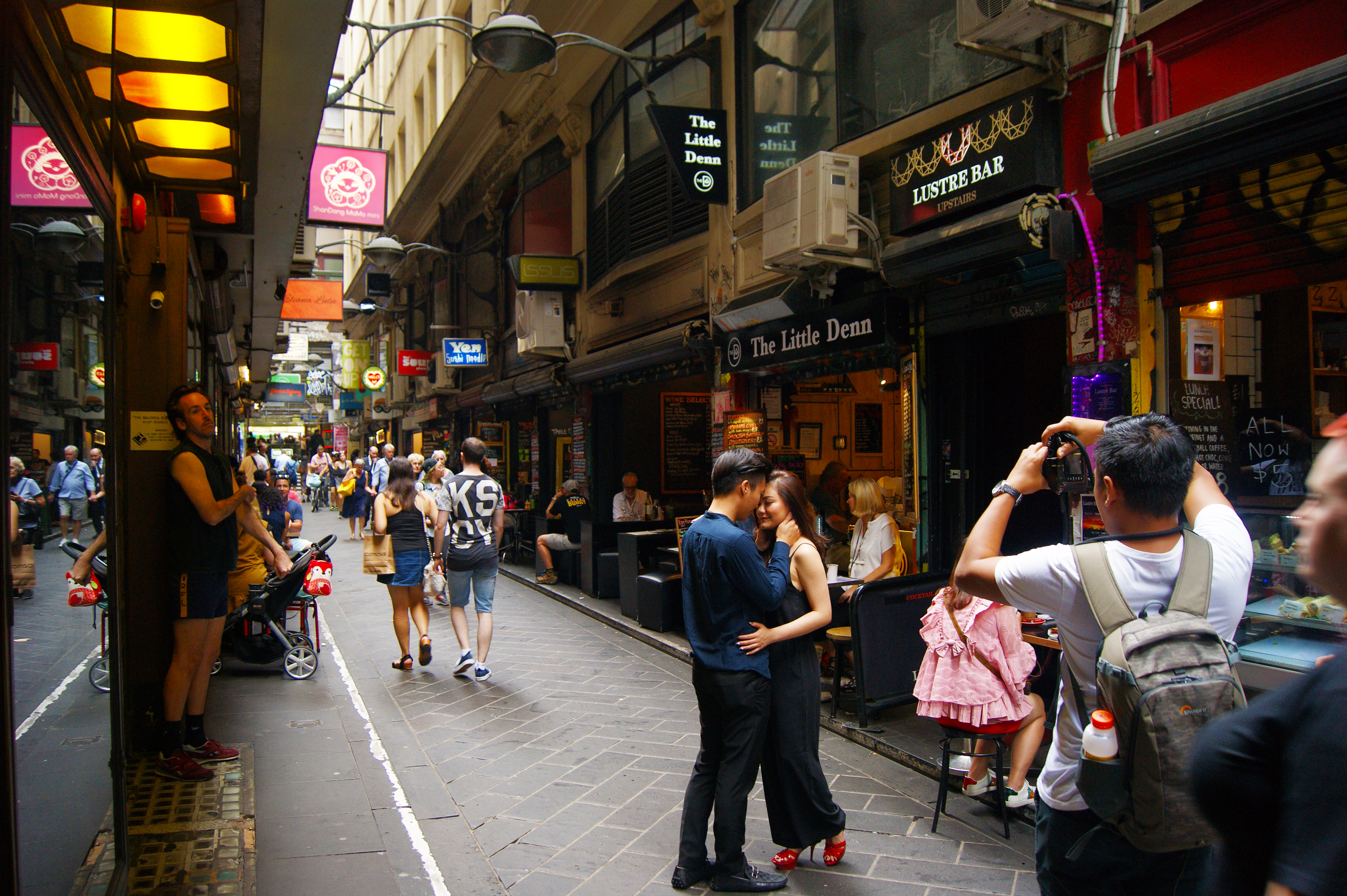 A laneway in Melbourne's city centre.